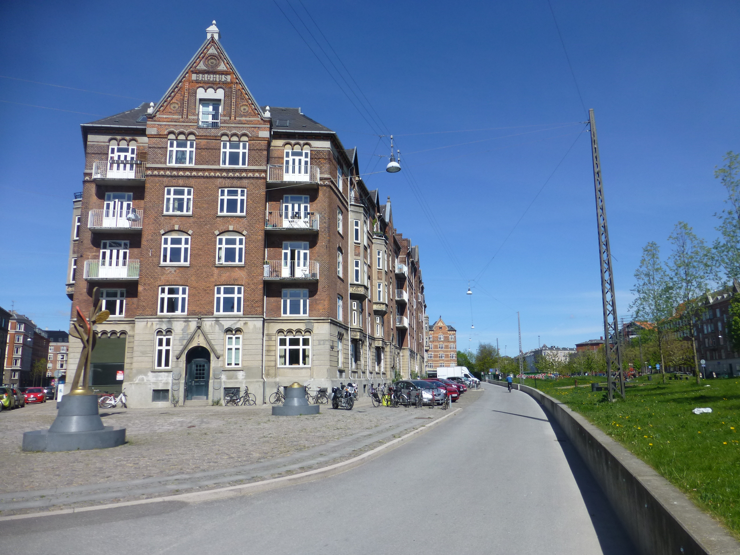 The street Laurids Skaus Gade in Nørrebro in Copenhagen.